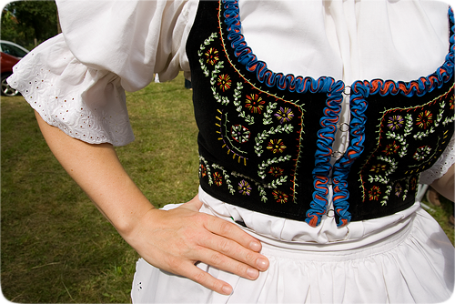 woman costume